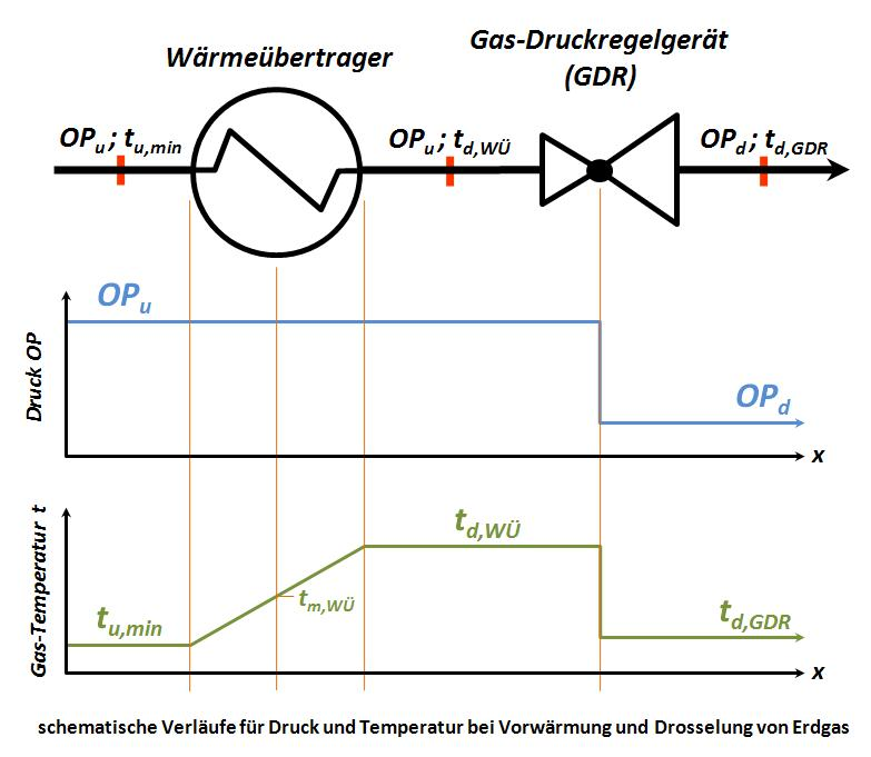 pressure and temperature curve at natural gas preheating